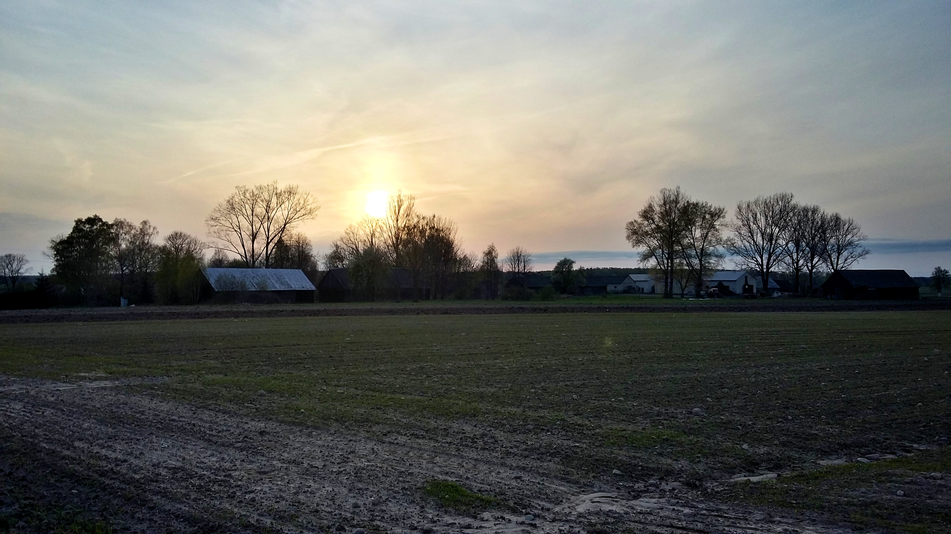 Field in Kaliski (May 2017)